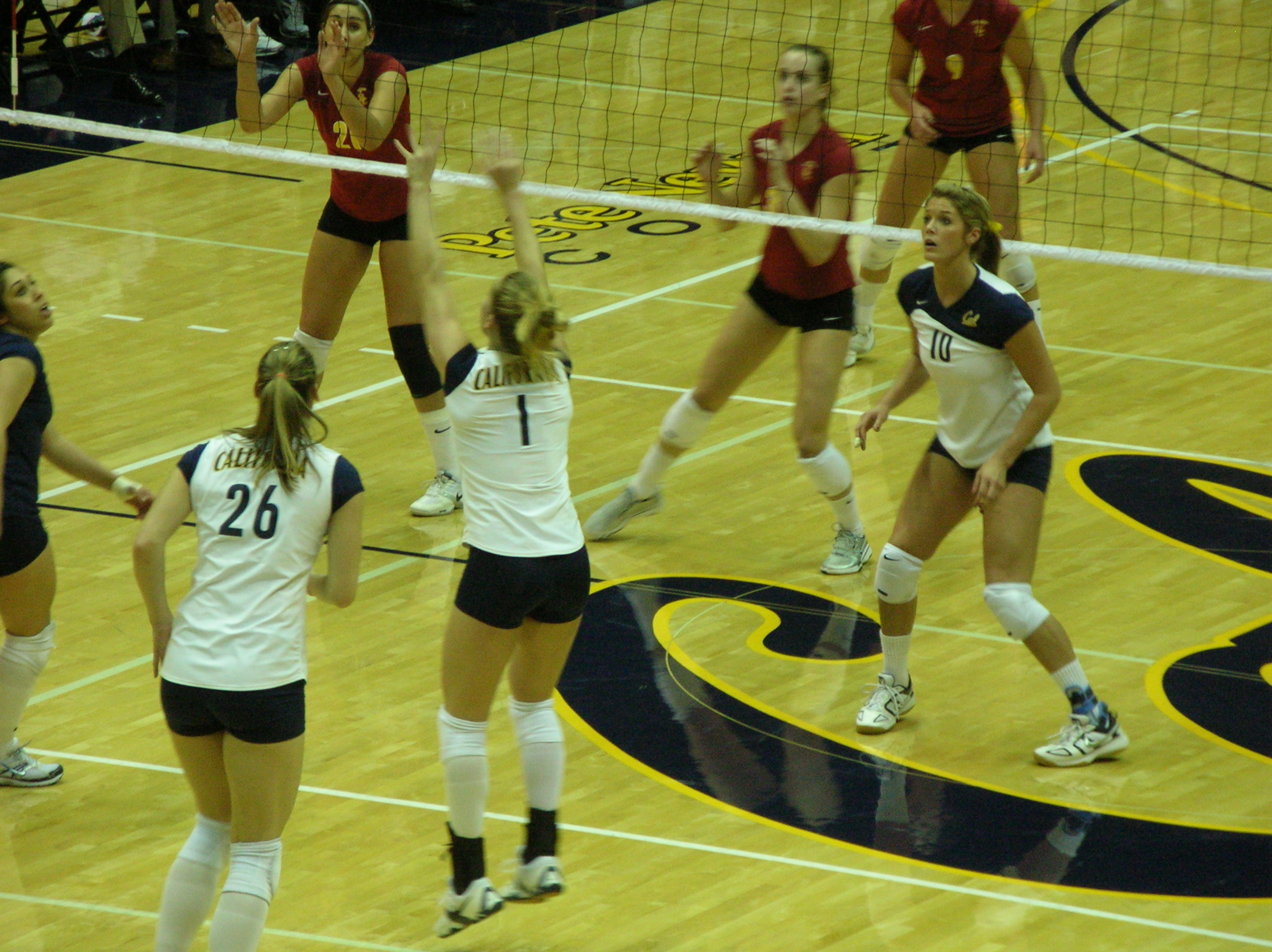 A women's volleyball match between USC and Cal in Berkeley. The Golden Bears won 3 sets to 1.